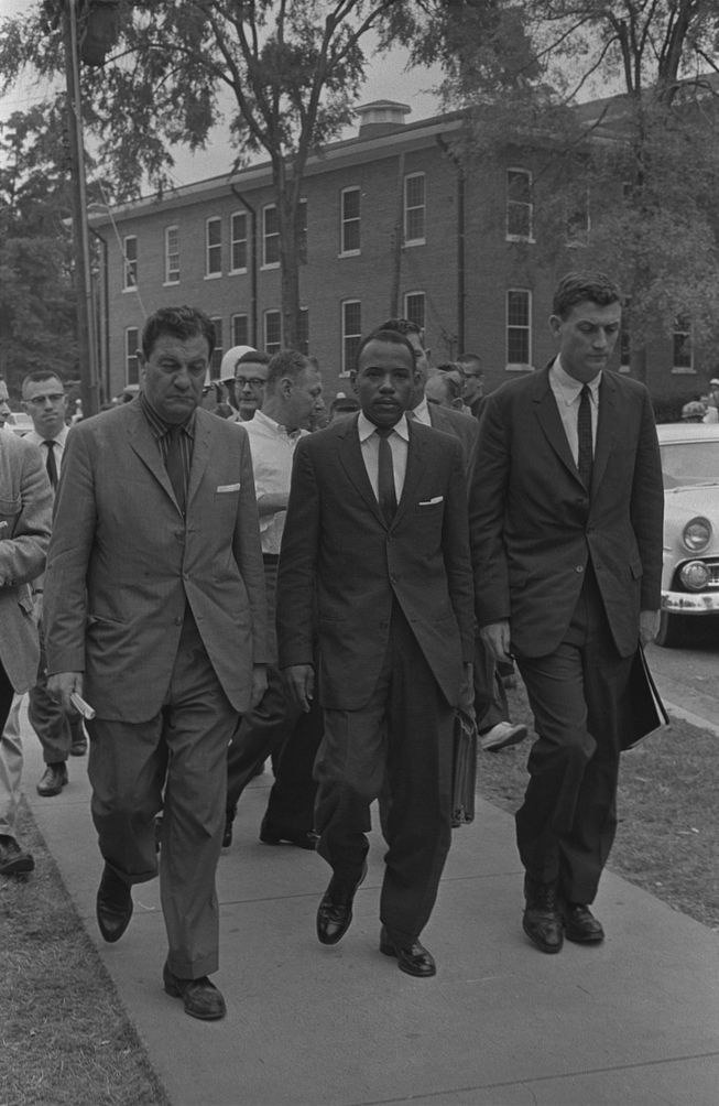 Photograph shows James Meredith walking on the campus of the University of Mississippi, accompanied by U.S. marshals.